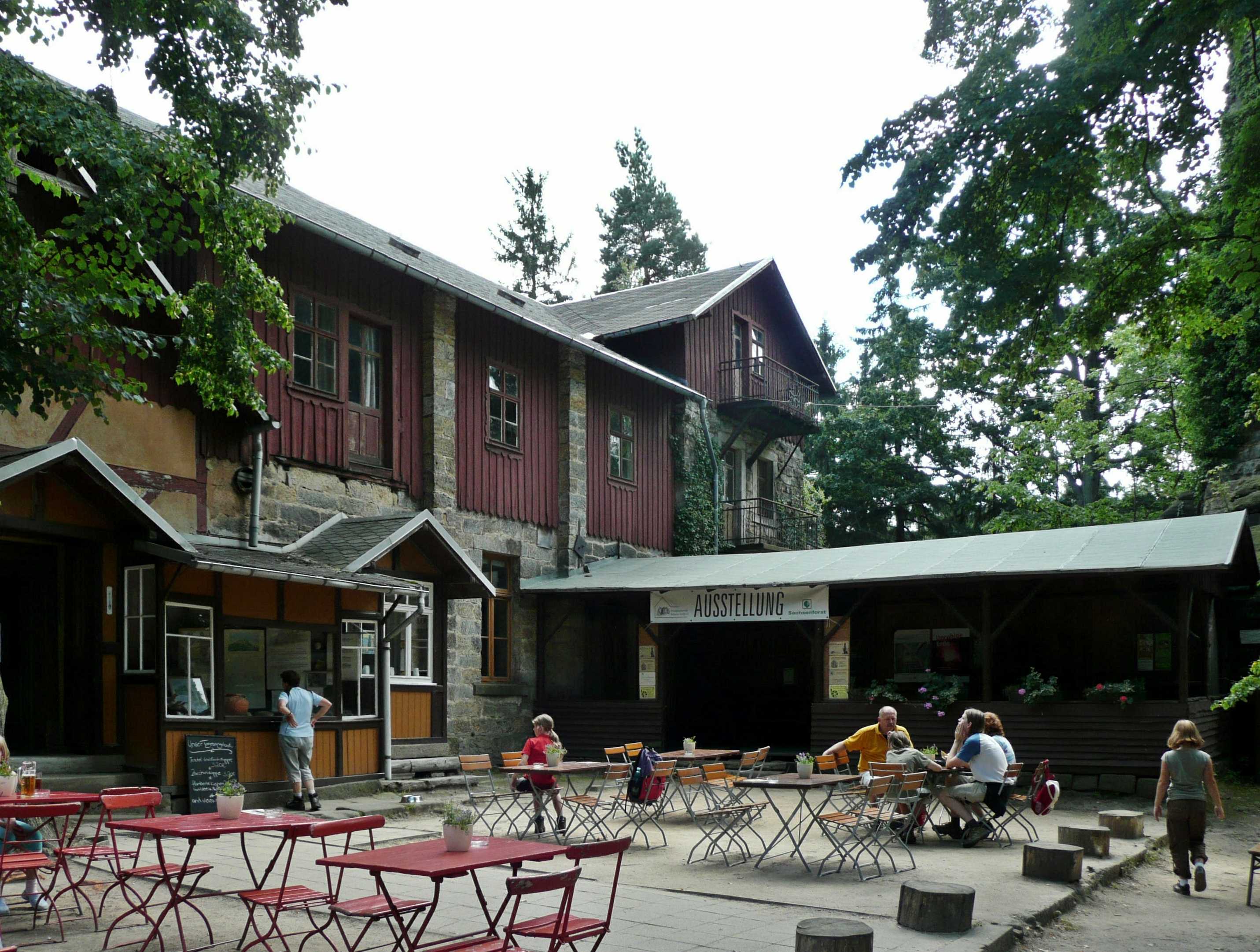 This image shows the restaurant on top of the Pfaffenstein (437 m) in the Saxon Switzerland.